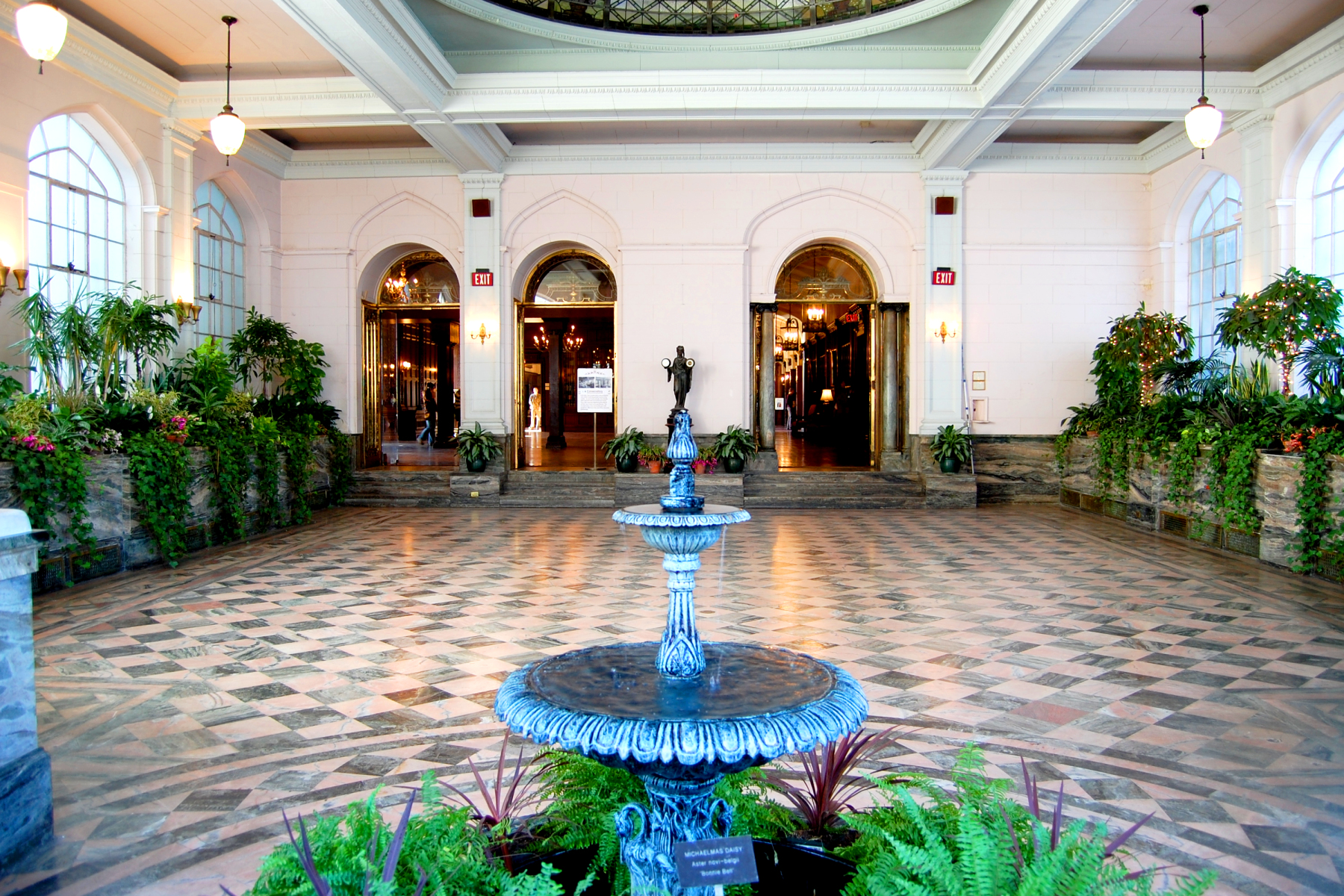 The Conservatory at Casa Loma, 1 Austin Terrace, Toronto, Ontario, Canada.